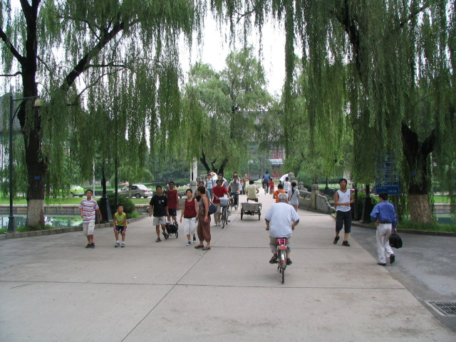 Near the west entrance on Peking University campus